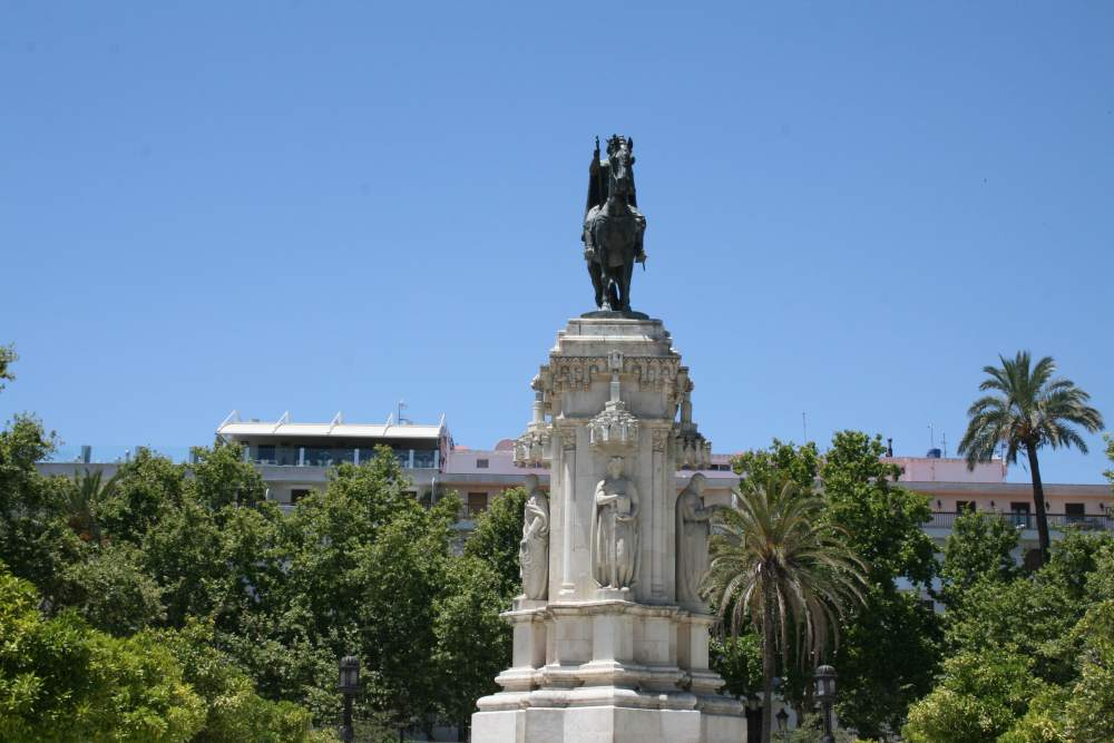 Plaza Nueva Seville 2019